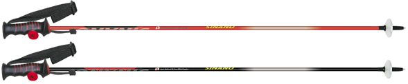 SINANO Skipole